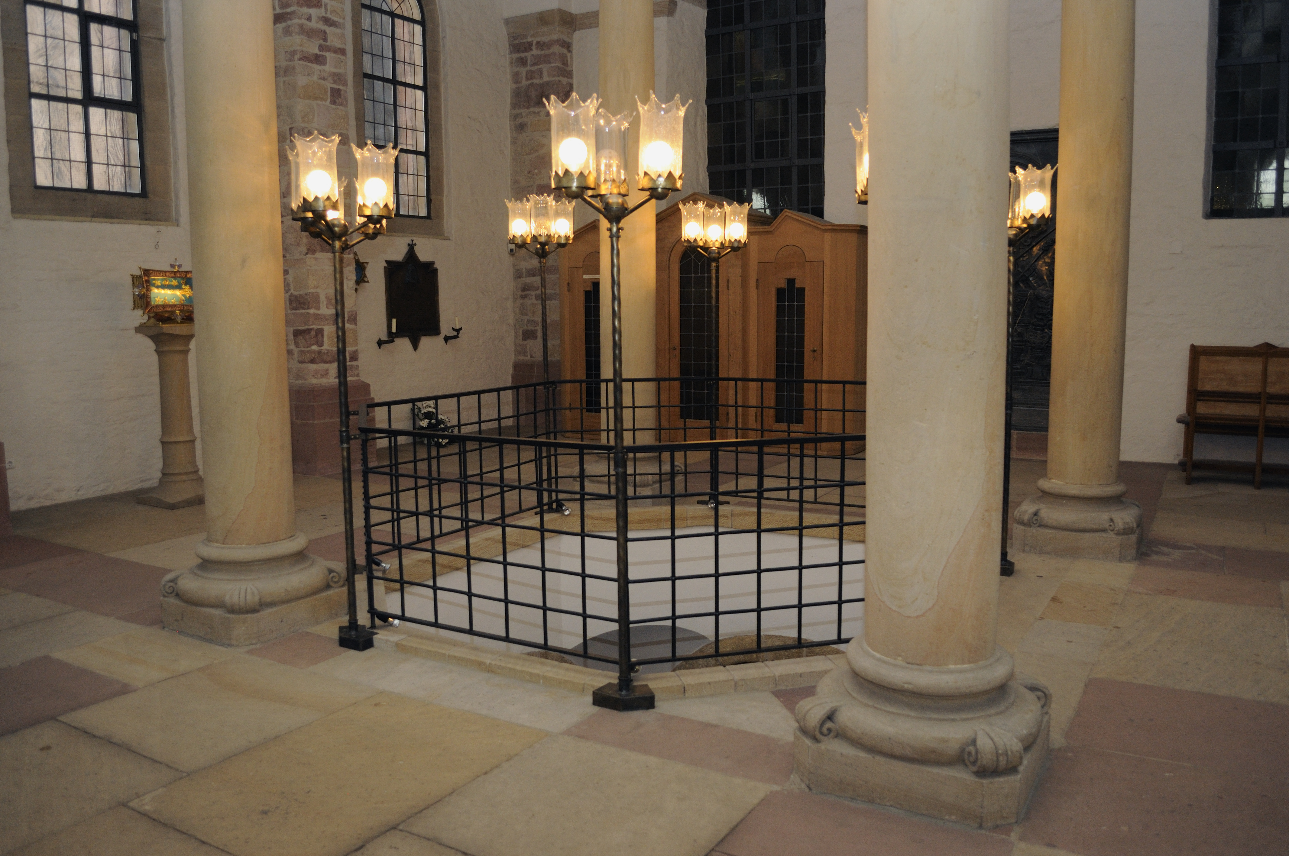 Picture taken in Speyer. Interior of the Speyer Cathedral.